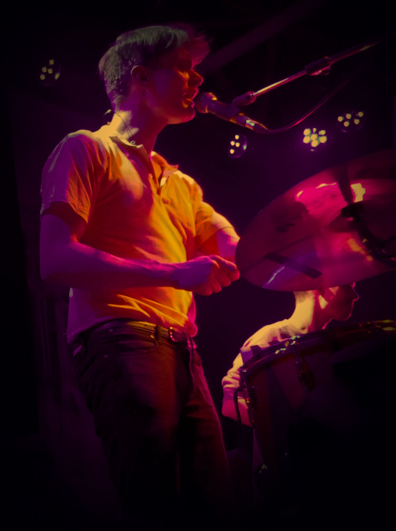 Efterklang - Live in Moscow (RU) - 2010 Dec 03